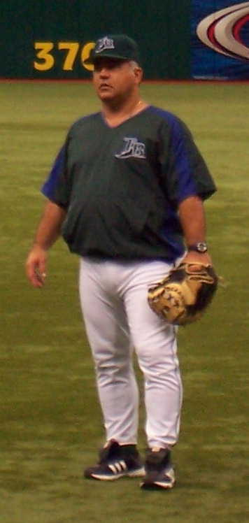 Picture of bullpen coach, Bobby Ramos, taken by me before the August 20, 2006 game at Tropicana Field. 02:28, 18 September 2006 . . Wknight94 . . 356×748 (22 KB)